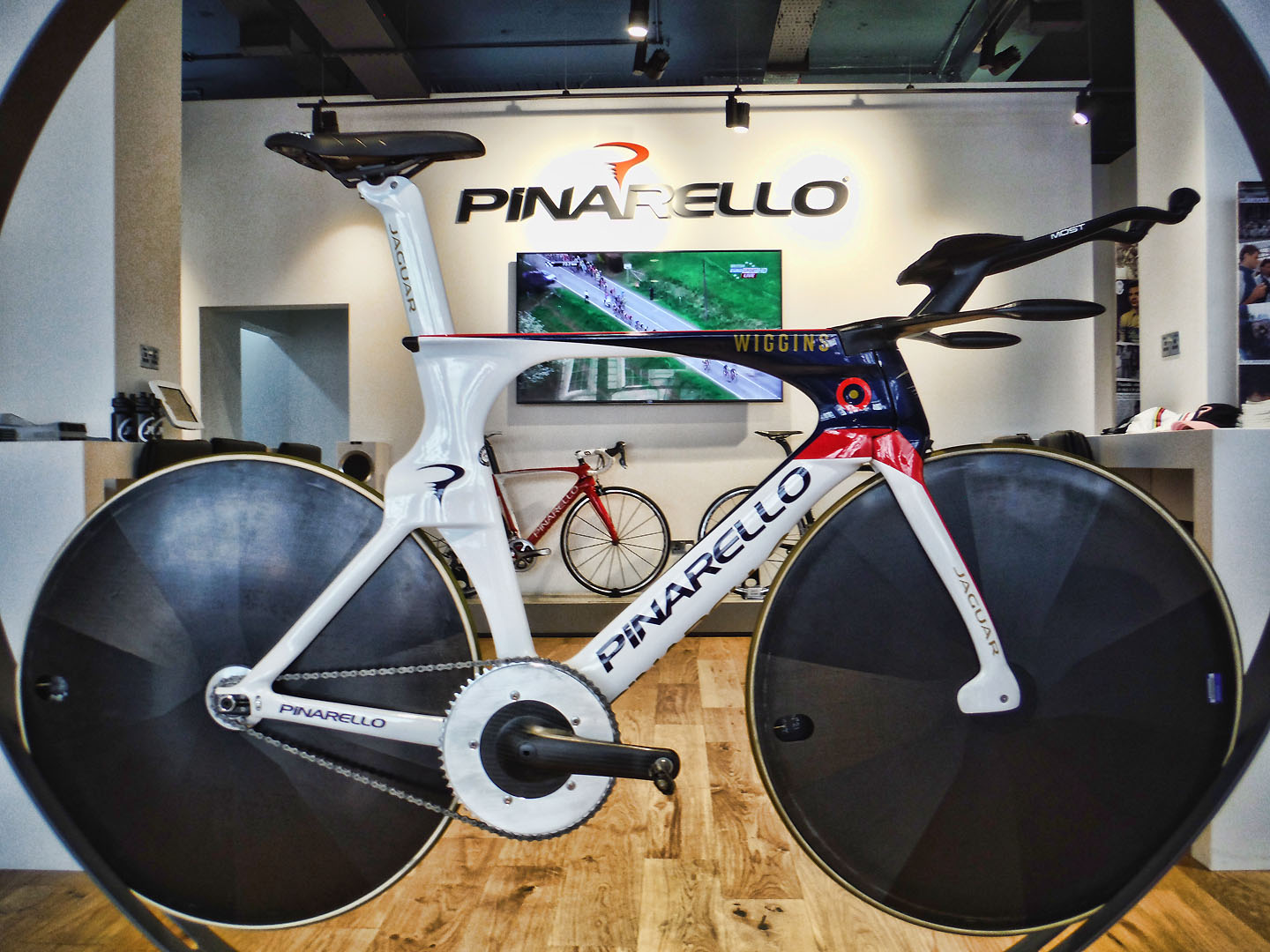 The track bike used by Sir Bradley Wiggins takes pride of place in Pinarello's London showroom.